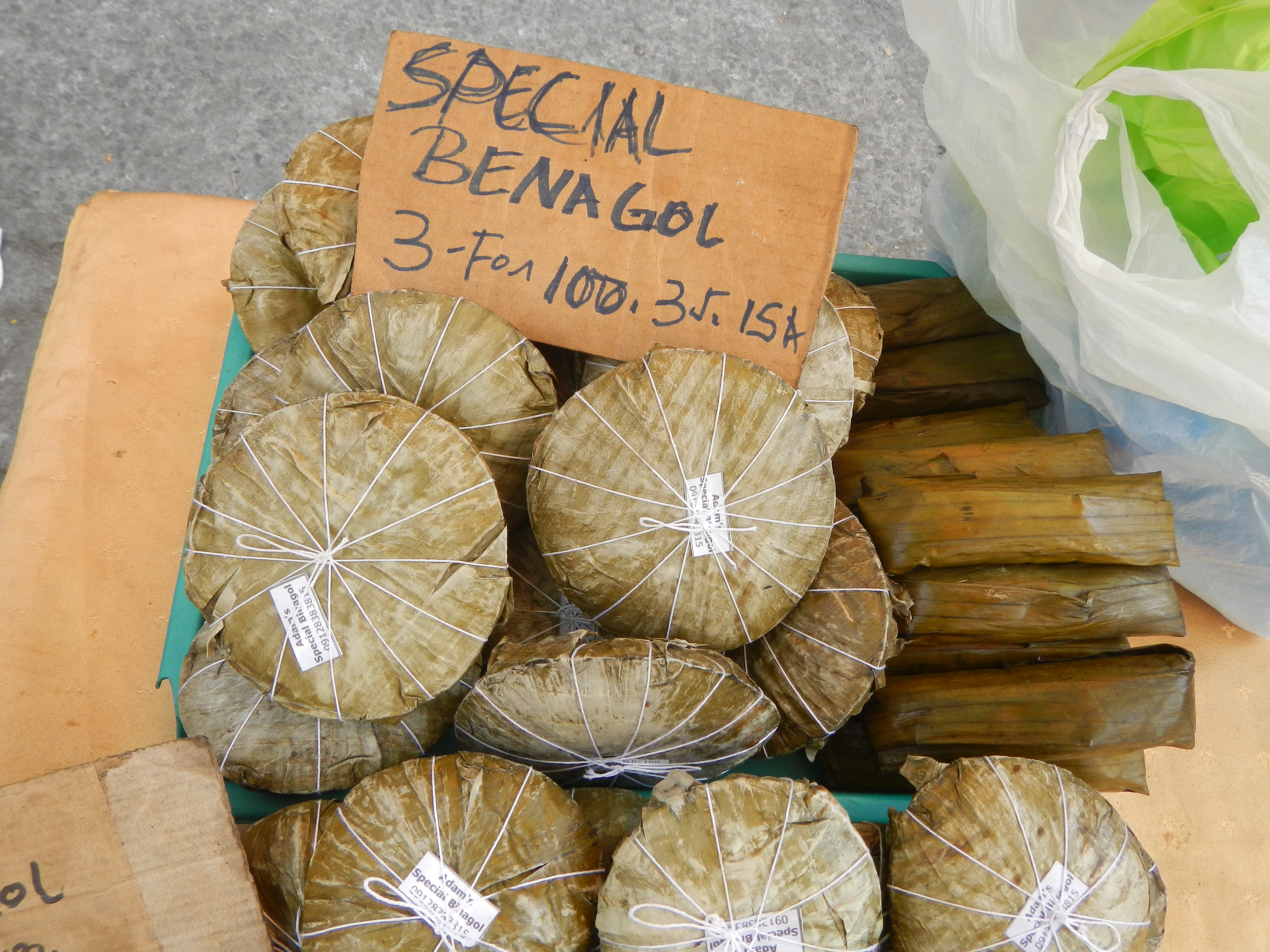 Binagol is made of a talyan root crushed or grated gabi similar to taro mixed with coconut milk, condensed milk, sugar and cooked like a sticky cake, steam in coconut shell and wrapped tied in banana leaves a popular sweet delicacy originating from Leyte, Visayas.